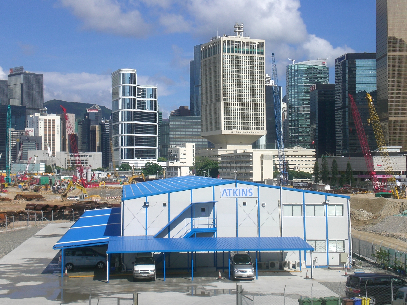 Atkins (company) 由民耀街zh:中區行人天橋系統望zh:中環及灣仔填海計劃及zh:金鐘